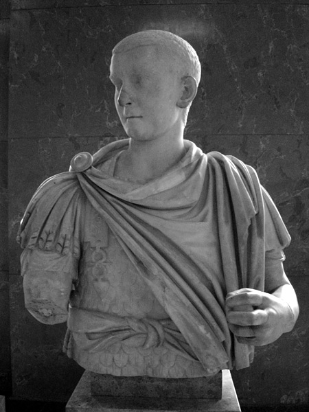 Portrait of Gordian III. Marble, between 242 and 244 CE. From Gabii.